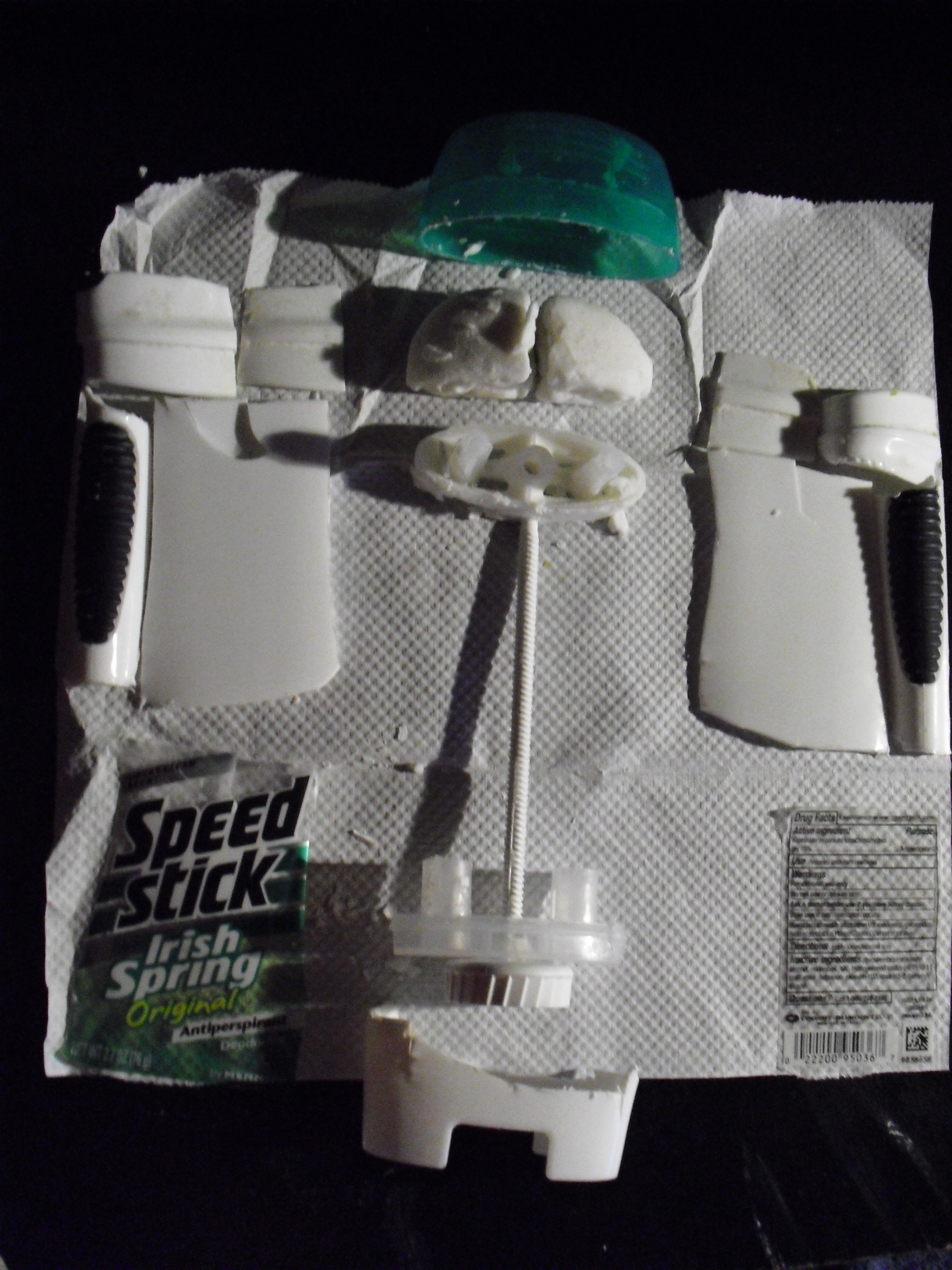 This image shows the components of the Irish Spring Speed Stick antiperspirant product.